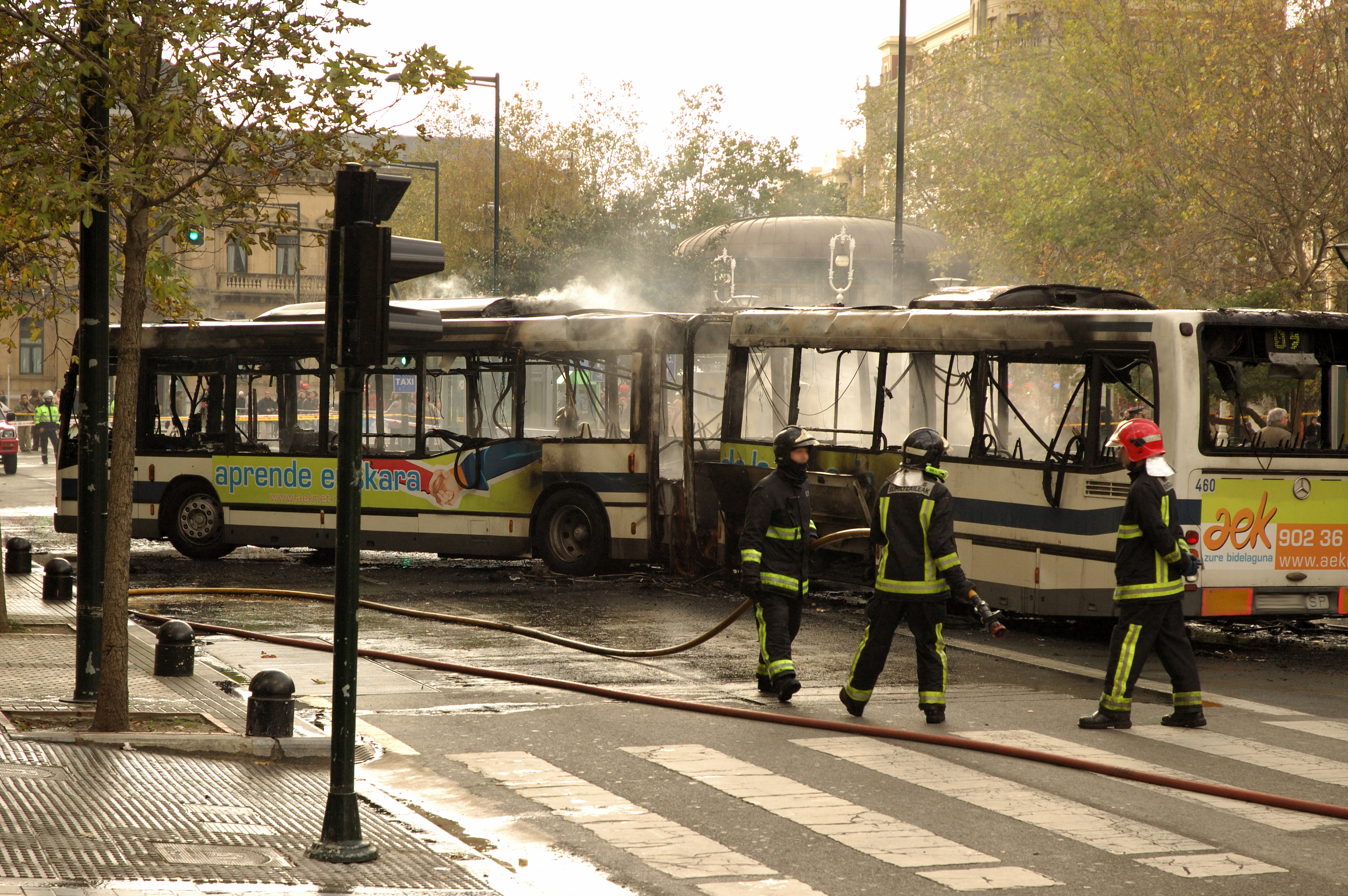 Burned bus in Donostia (kale borroka)